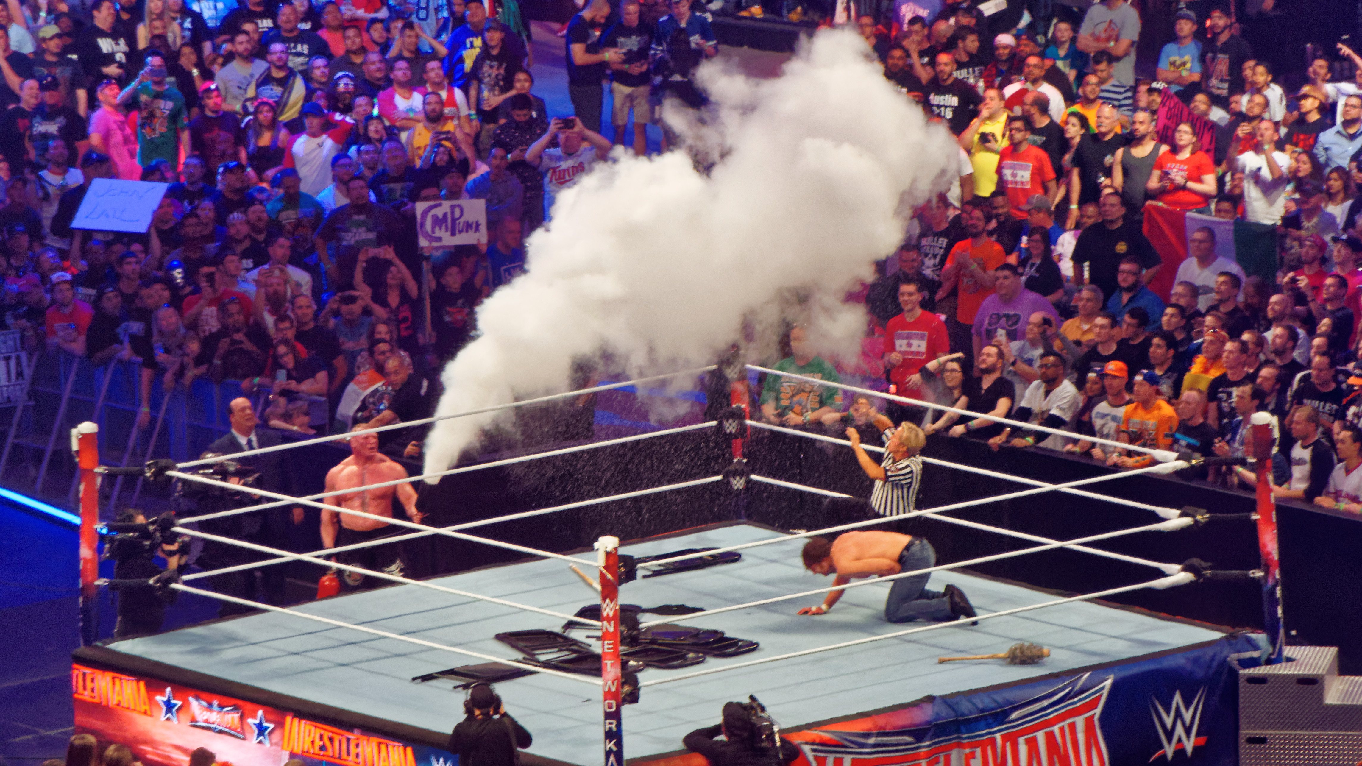 WrestleMania 32 was the thirty-second annual WrestleMania professional wrestling pay-per-view (PPV) event produced by WWE. It took place on April 3, 2016, at AT&T Stadium in Arlington, Texas. Twelve matches were contested on the card (with three matches occurring on the WrestleMania Kickoff pre-show - two airing live on the USA Network, which televised the second hour of the pre-show). Brock Lesnar def. (pin) Dean Ambrose (in 12:50) Type of match : no holds barred streetfight Rating : ***1/4